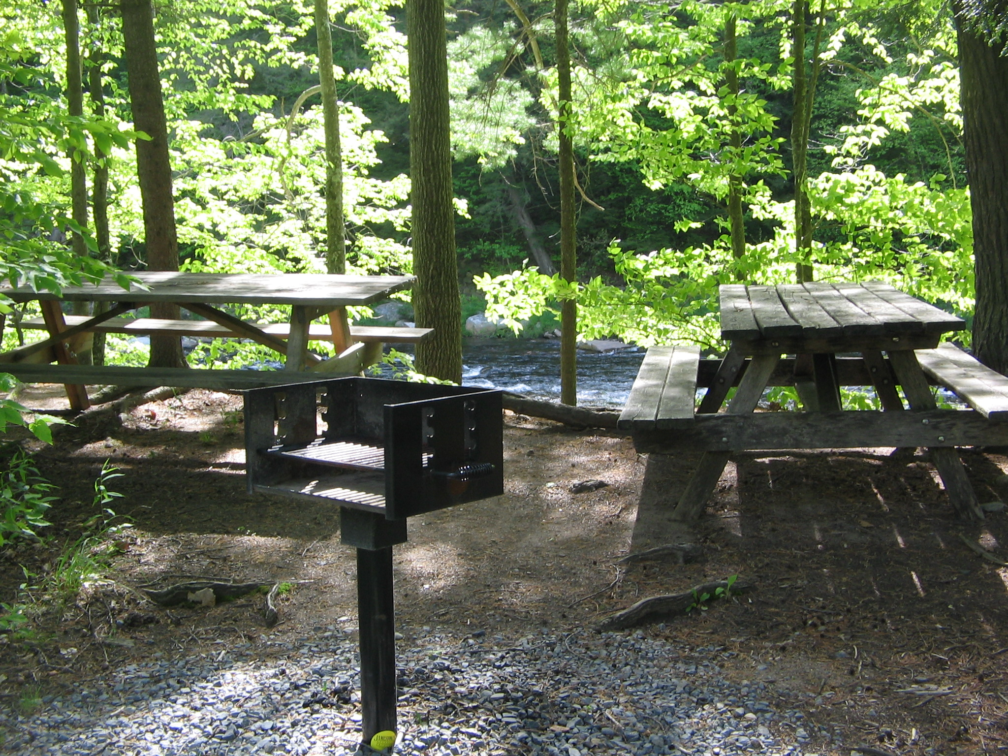 Picnic tables and grill with Loyalsock Creek in Worlds End State Park, near Forksville, Sullivan County, Pennsylvania, USA